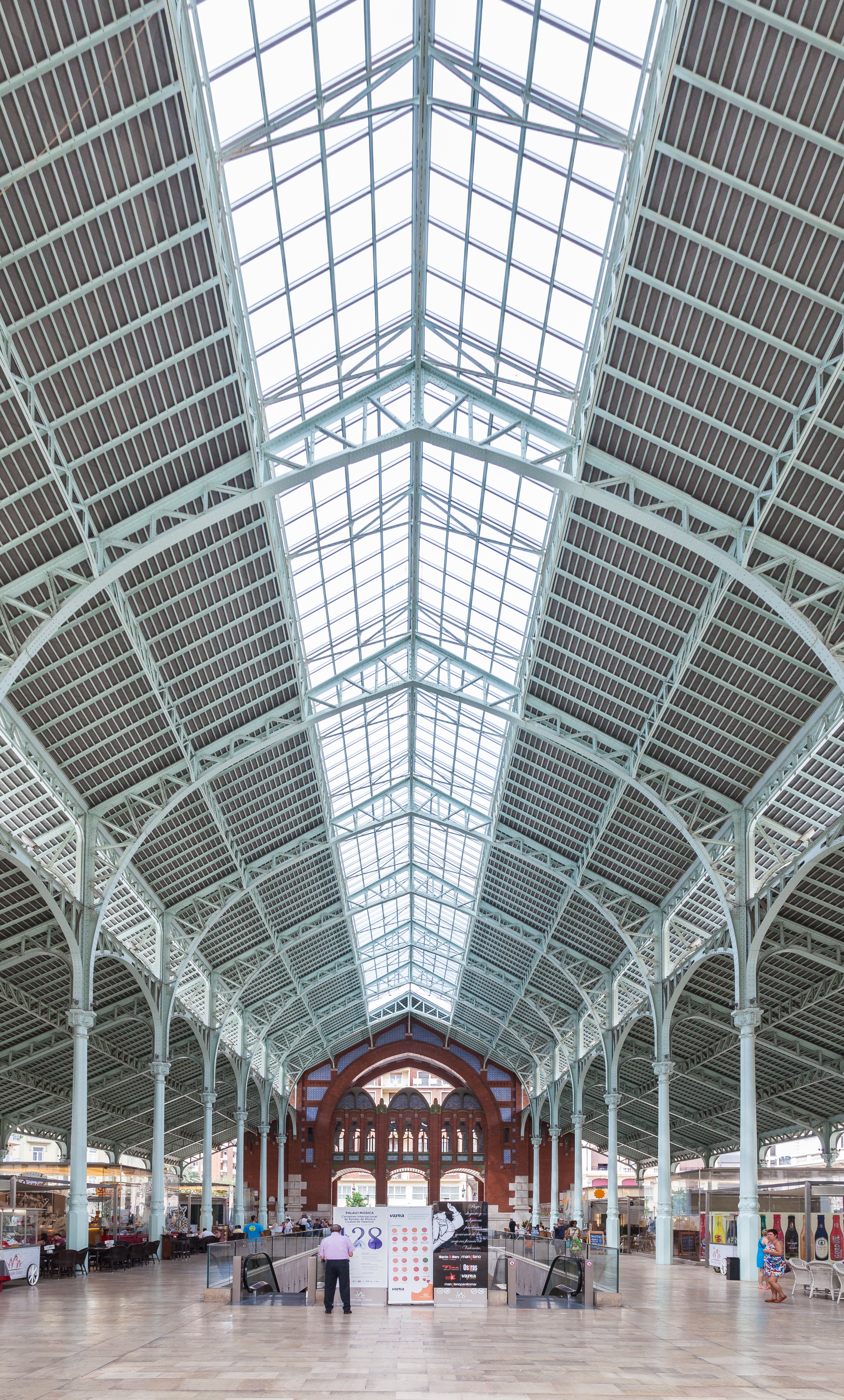 Columbus Market, Valencia, Spain